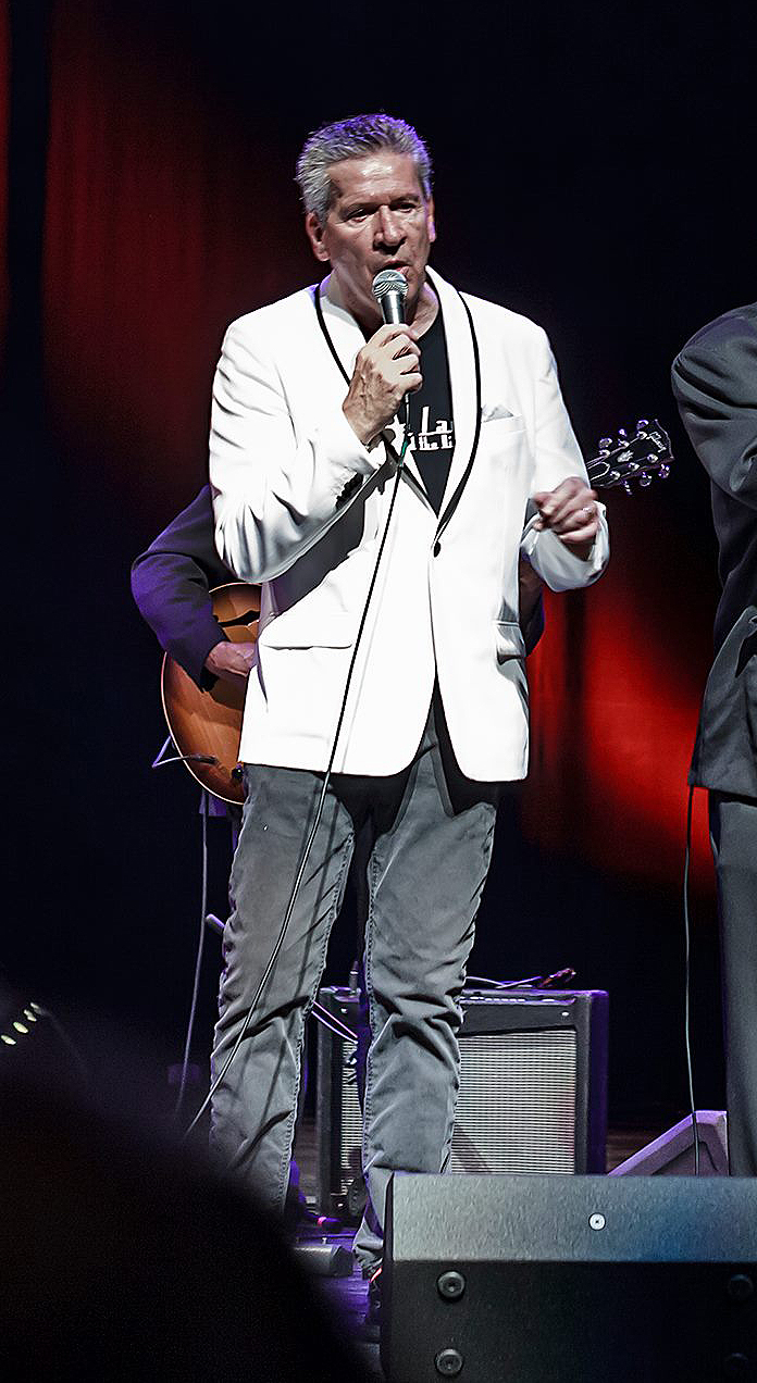 performer holding handheld microphone in auditorium